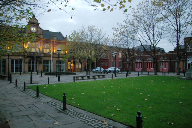 Salford old fire station Salford old fire station, The Crescent, Salford, Greater Manchester